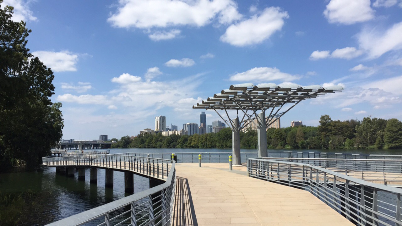 The Austin, Texas skyline seen from the Ann and Roy Butler Hike-and-Bike Trail along Lady Bird Lake, near the South Shore District.